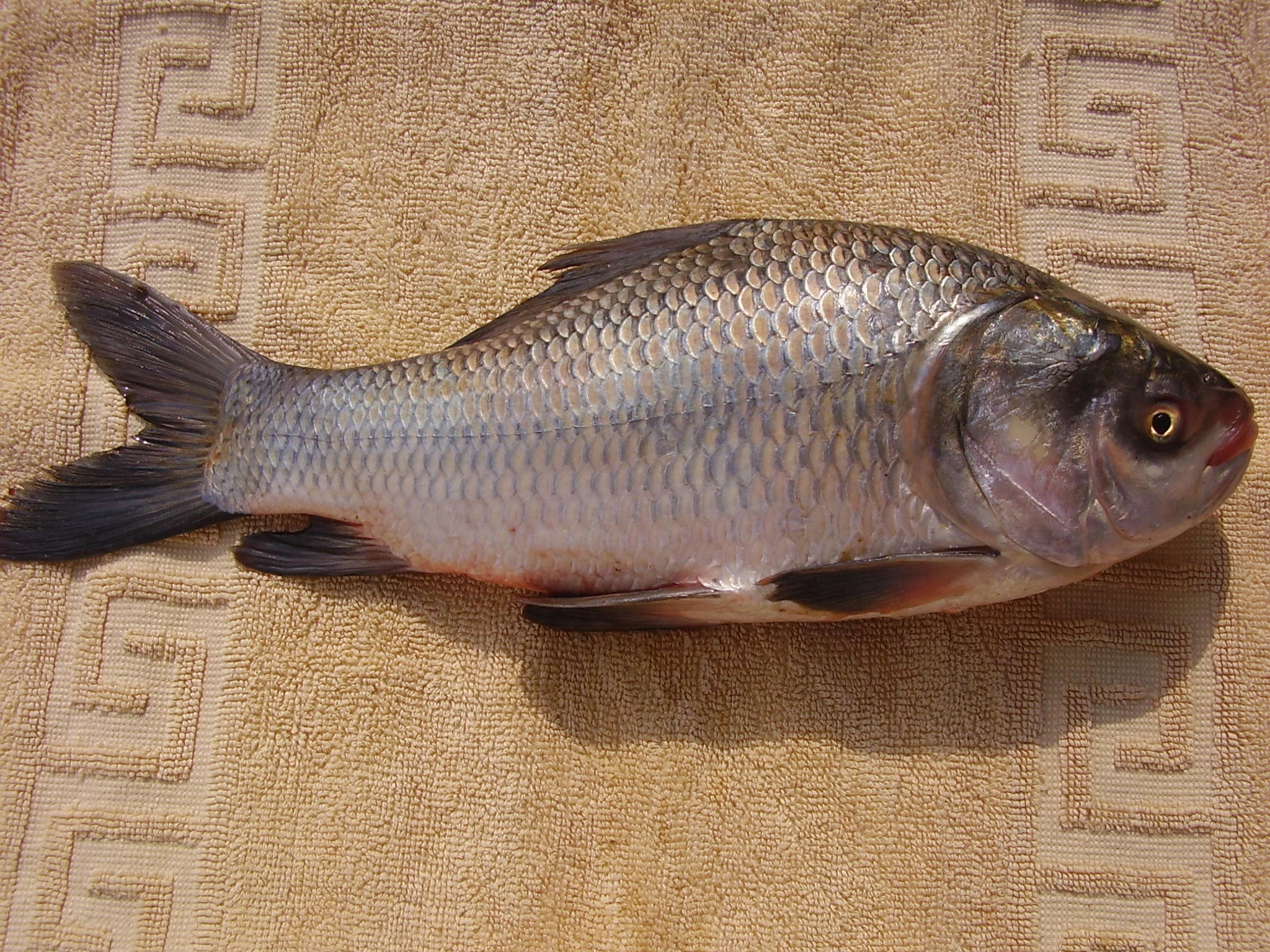 Gibelion catla (formerly Catla catla)